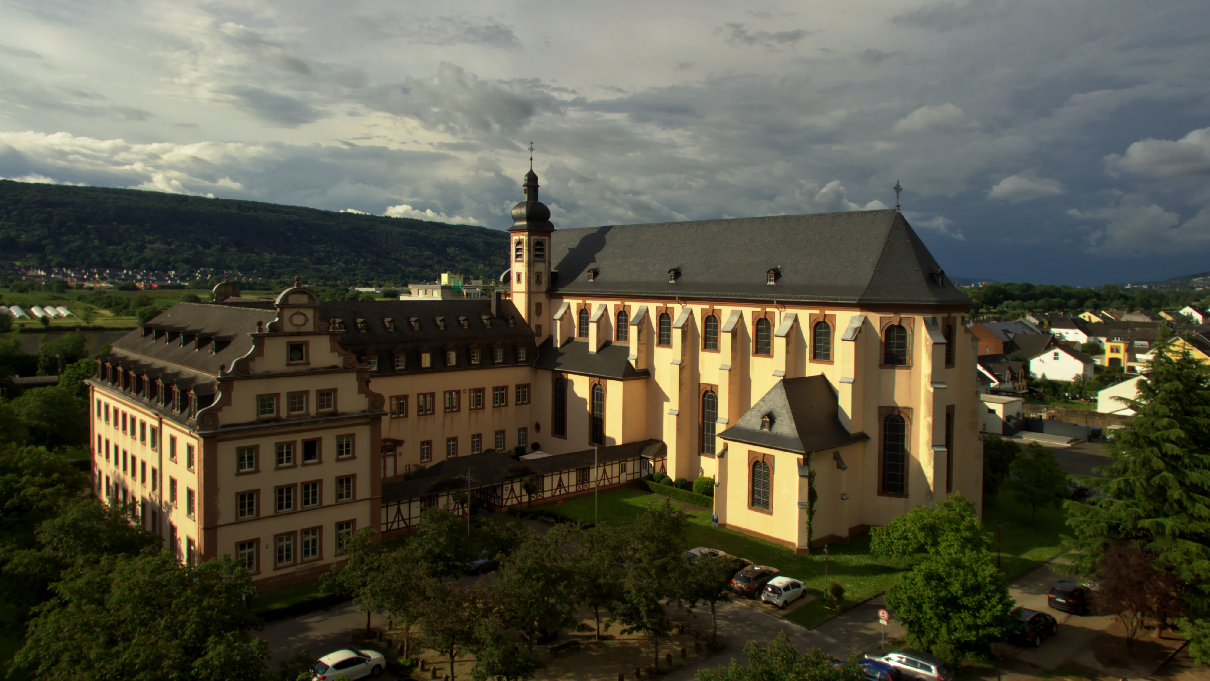 Former chartreuse Konz-Karthaus (Germany)